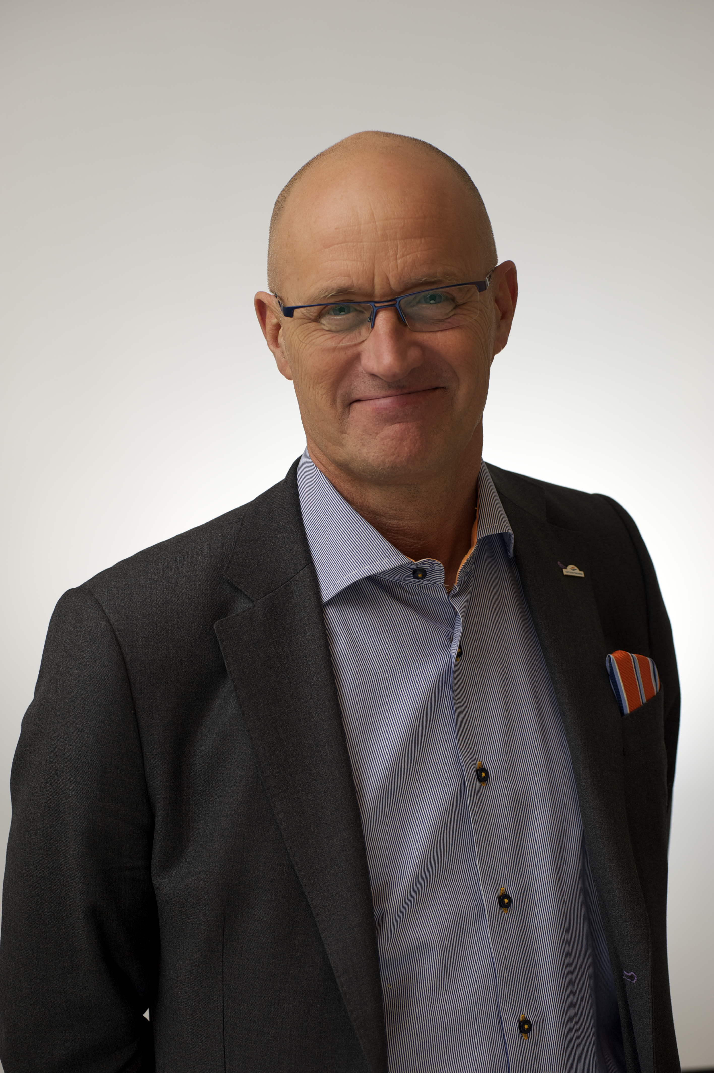 Reinhold Lennebo